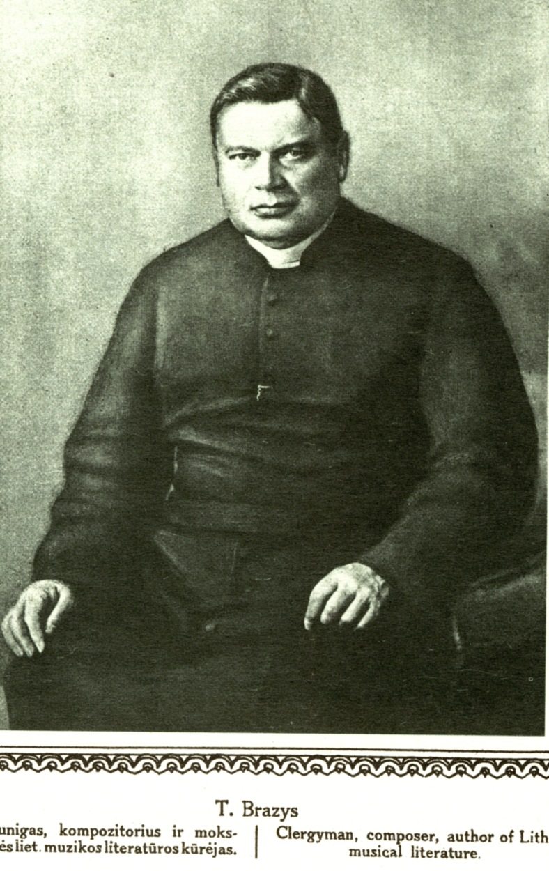 Teodoras Brazys, Lithuanian clergyman, componist, teacher